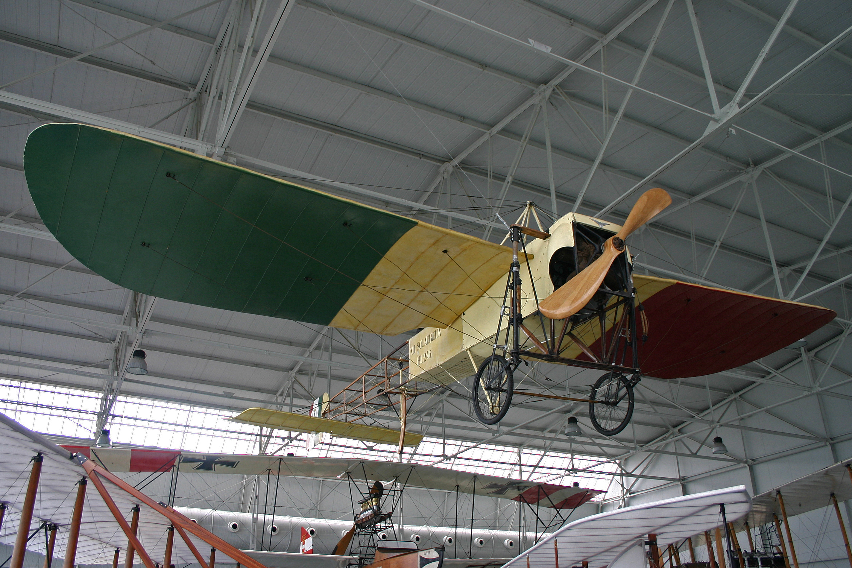 Displayed in Hangar TROSTER. Carries 'XIII Squadriglia' markings. Used during the 1911 Italy / Turkey war. Displayed as BL246 although it is also possibly BL160